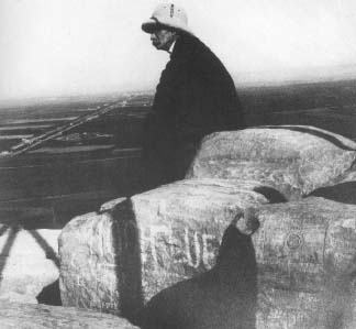 James Ricalton (1844-1929), renowned teacher and photographer, sitting on top of the great pyramid in Giza. Self portrait